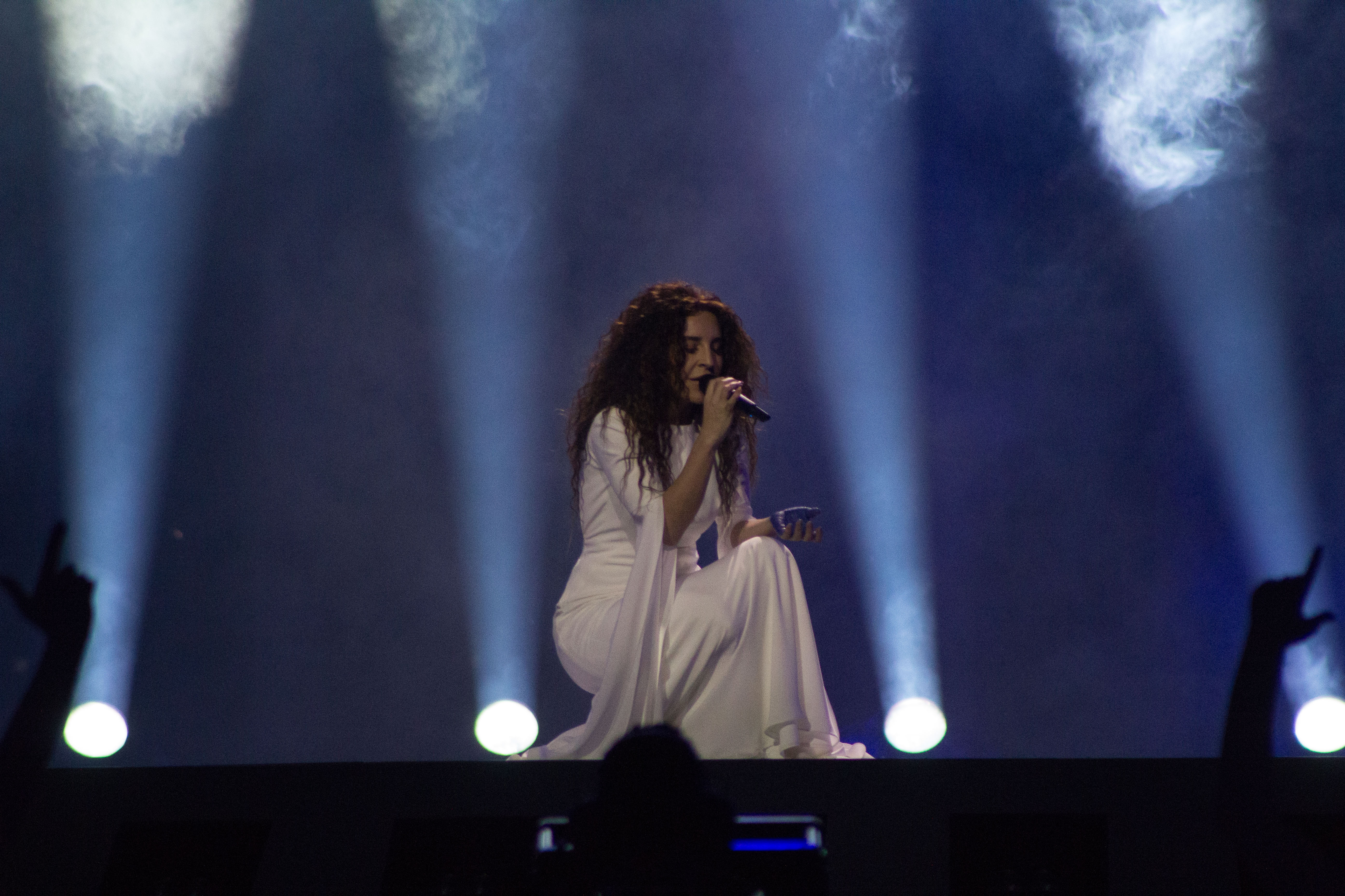 Yianna Terzi representing Greece with the song "Oneiro mou" during a rehearsal before the first semi final of the Eurovision Song Contest 2018 in Lisbon.